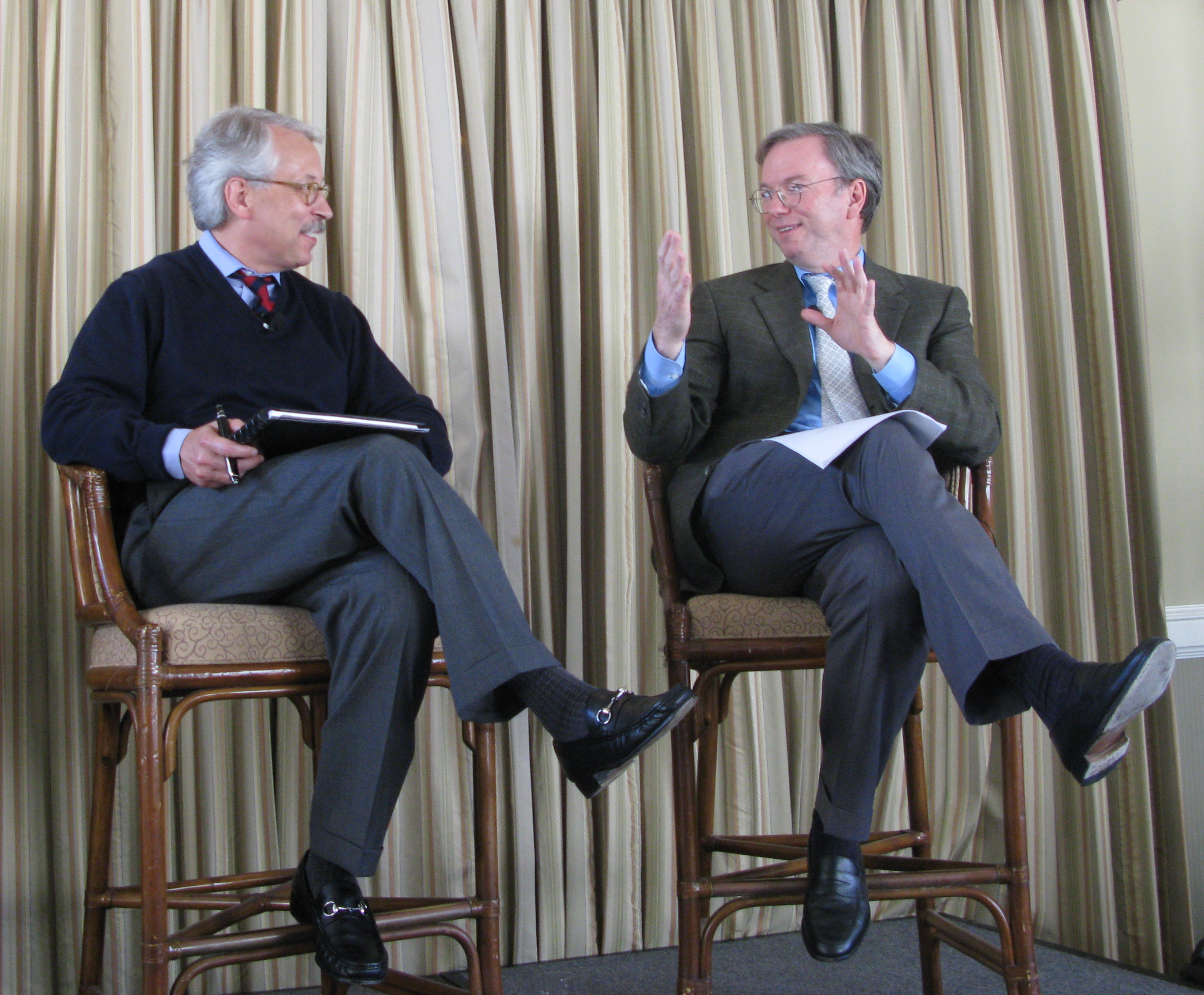 Interview of Eric Schmidt by Gary Hamel at the MLab dinner tonight. Google's Marissa Mayer and Hal Varian also joined the open dialog about Google's culture and management style, from chaos to arrogance. The video just went up on YouTube. It's quite entertaining.